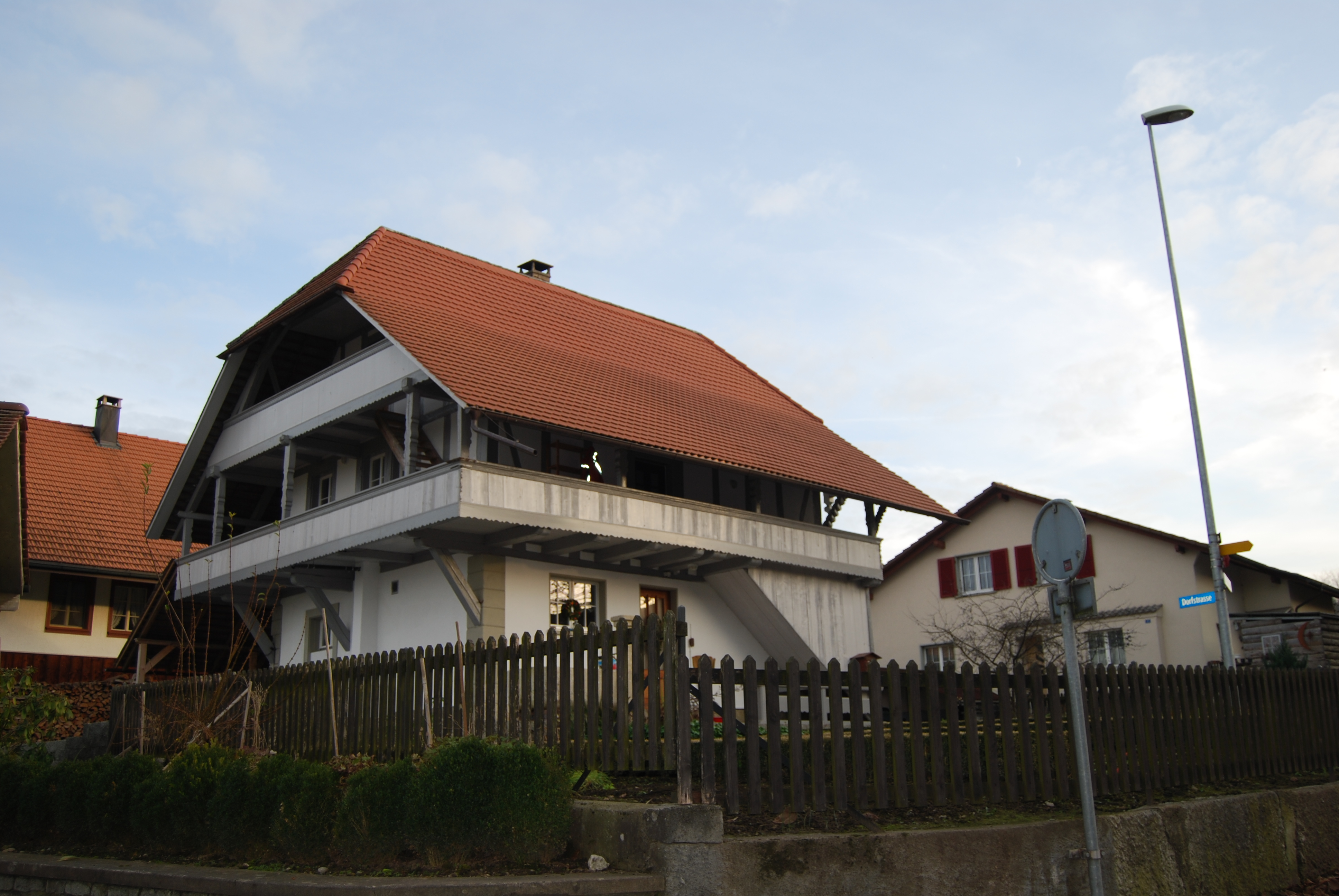 Höchstetten, canton of Bern, SwitzerlandEsperanto: Höchstetten, Kantono Berno, Svislando